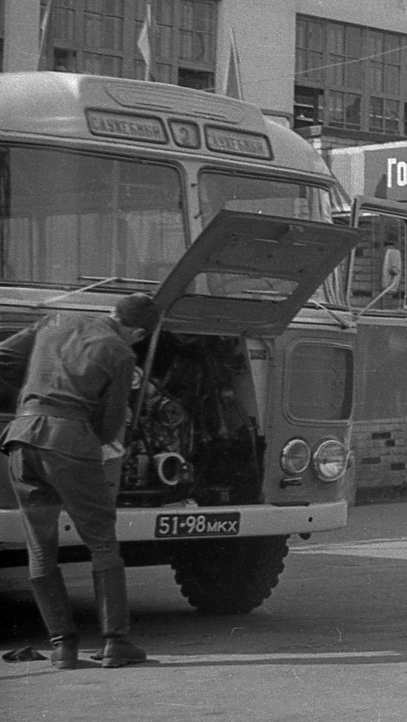 A soldier inspects the USSR Ministry of Defense bus PAZ-3201 engine with military numbers, the hood is opened. Picture taken in the suburbs in the summer of 1975.